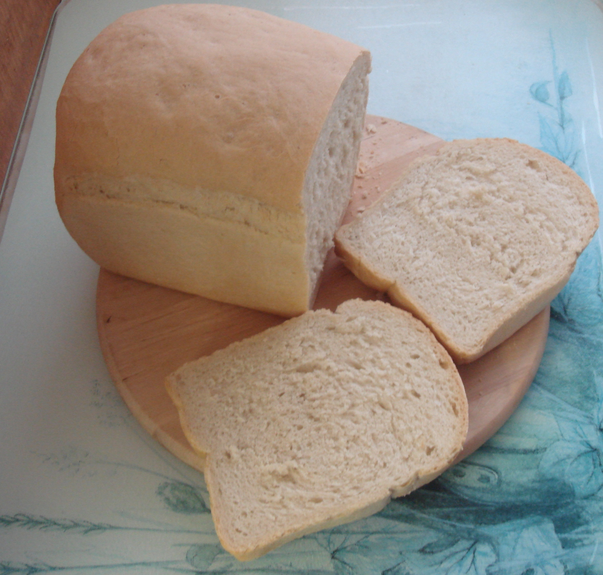 White bread, made and photographed by ElinorD